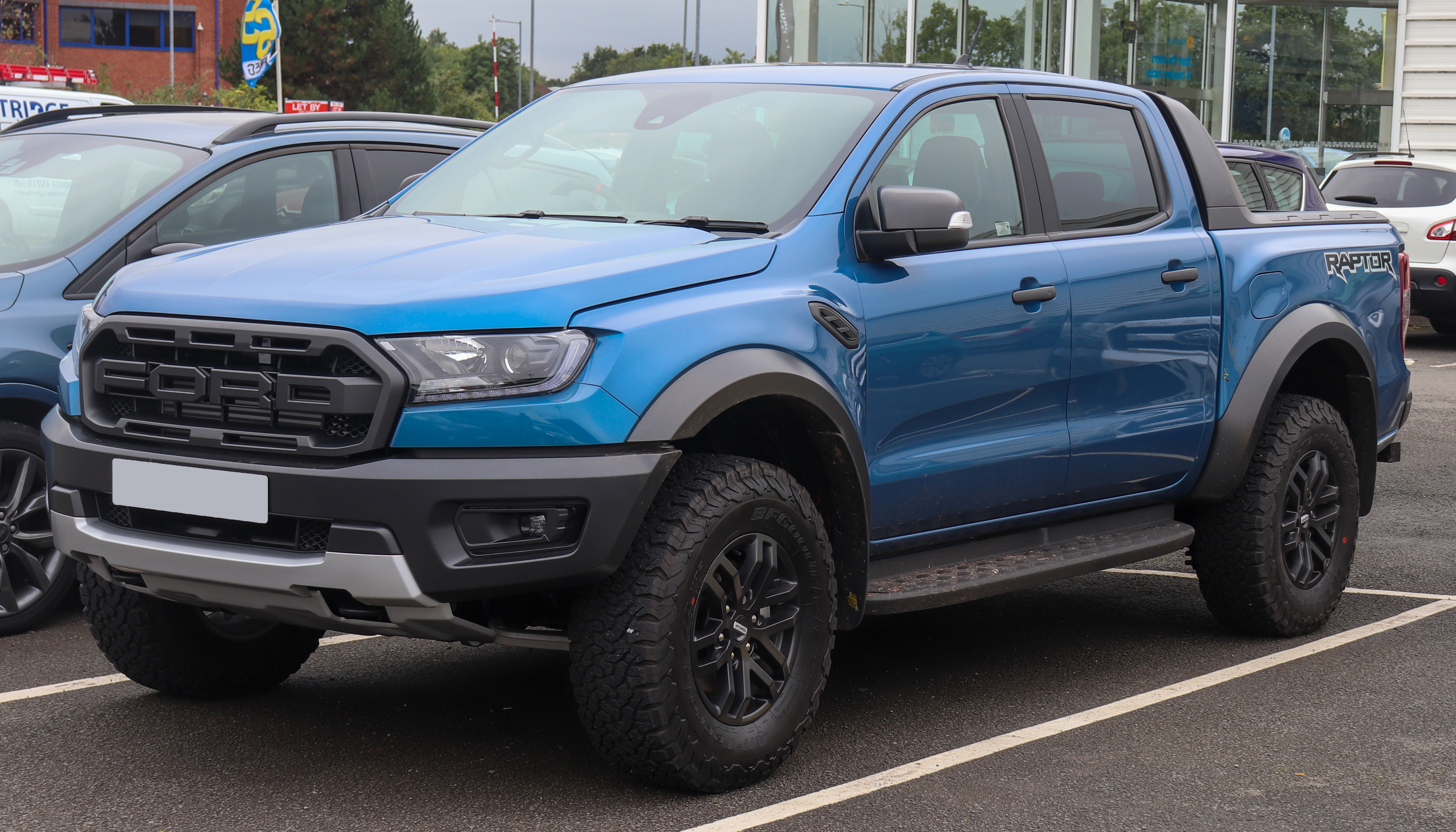 2019 Ford Ranger Raptor EcoBlue 4X4 2.0 Taken in Leamington Spa